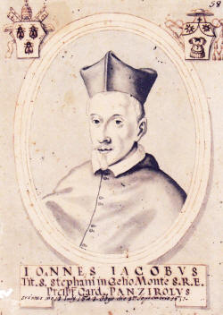 Giovanni Giacomo Panziroli, cardinal secretary of state